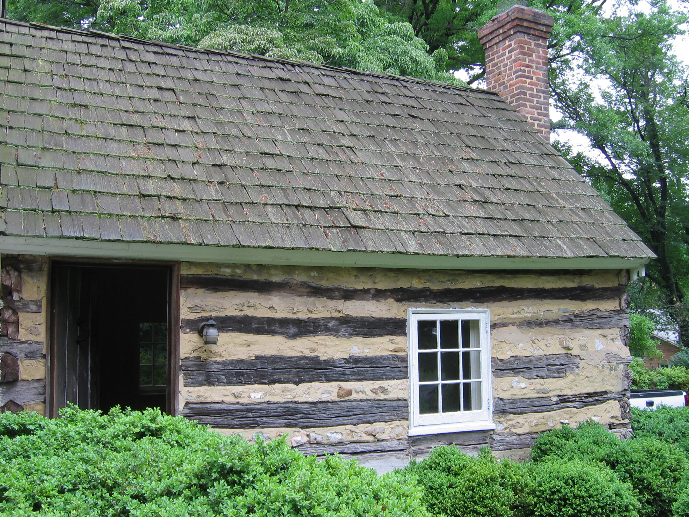 Uncle Tom's Cabin (Riley House), located in Bethesda, Maryland, was once home to Josiah Henson who inspired Harriet Beecher Stowe's novel, Uncle Tom's Cabin.